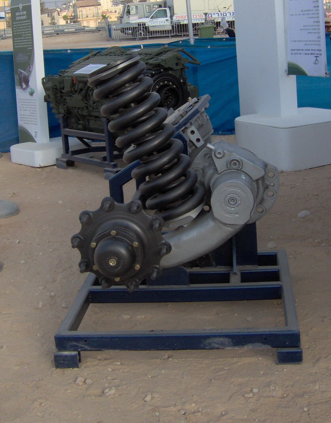 Helical spring